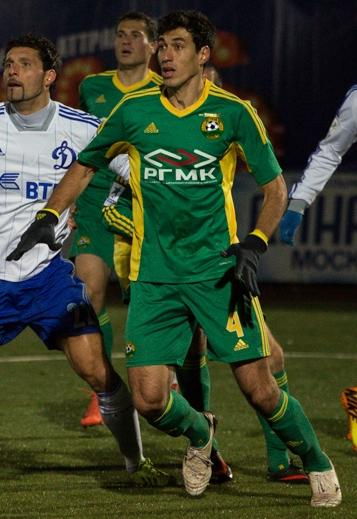 Xandão playing for FC Kuban Krasnodar in 2013.